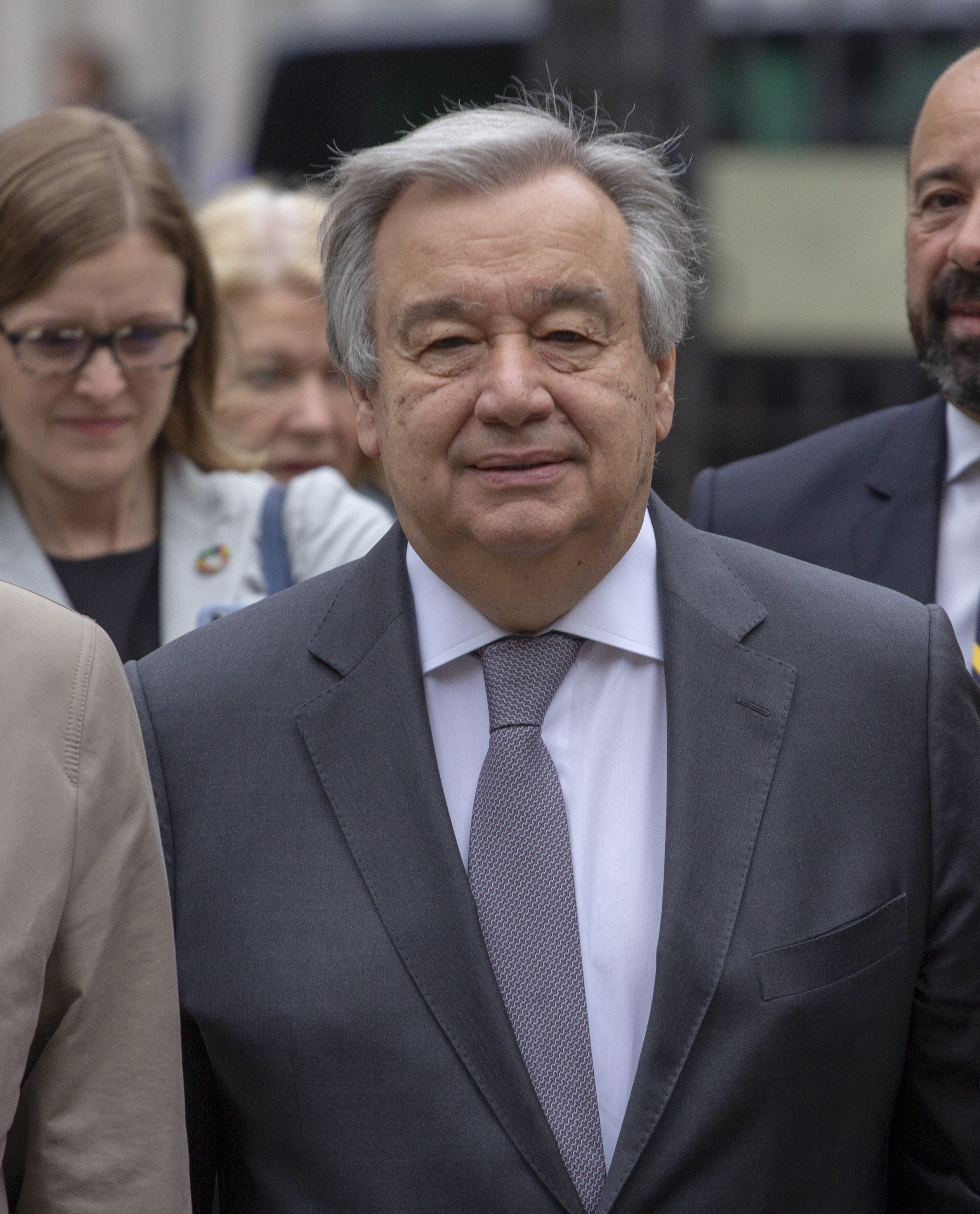 António Guterres at the Charlemagne Prize.